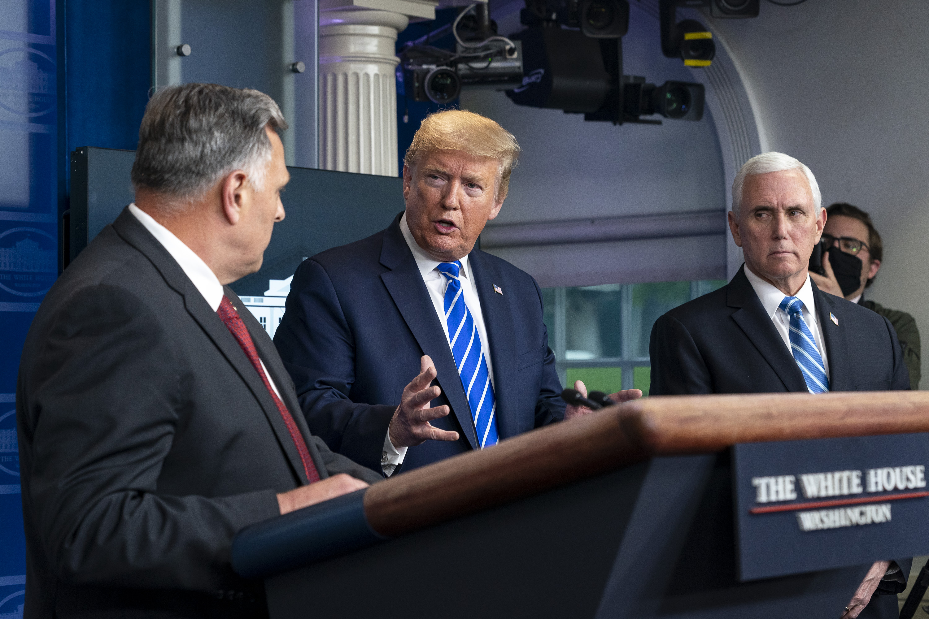 President Donald J. Trump, joined by Vice President Mike Pence, listens as William N. Bryan, science and technology advisor to the DHS Secretary, delivers remarks and answers questions from members of the press during a coronavirus task force briefing Thursday, April 23, 2020, in the James S. Brady White House Press Briefing Room. (Official White House Photo by Joyce N. Boghosian)